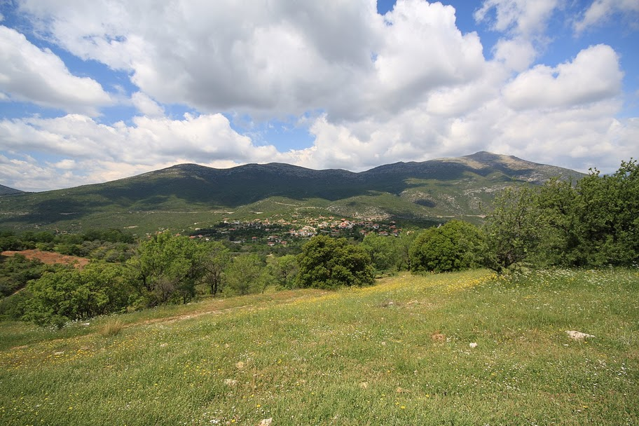 Spring overview of Elaiochori